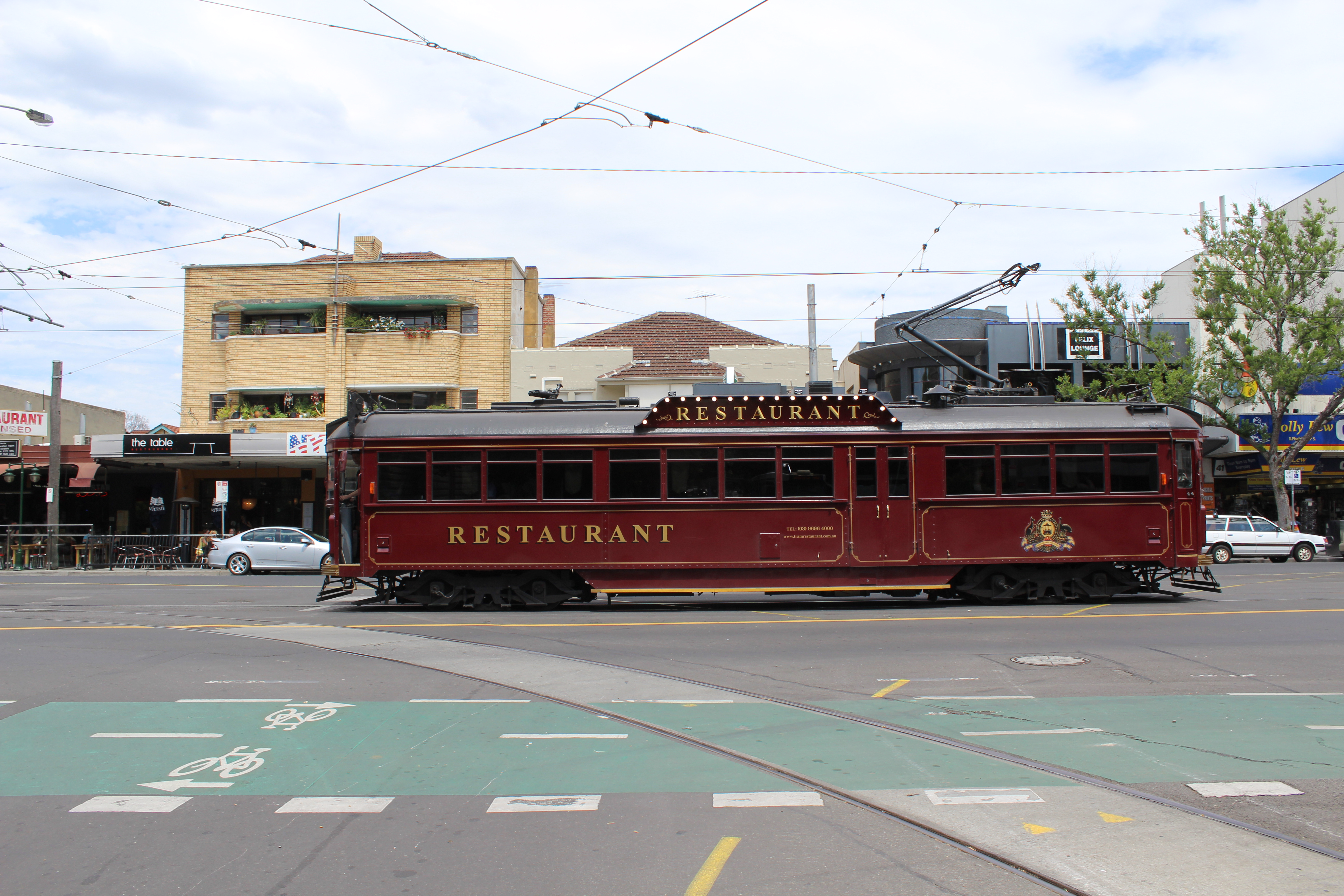 Colonial Tramcar Restaurant in St Kilda - 24-11-2012